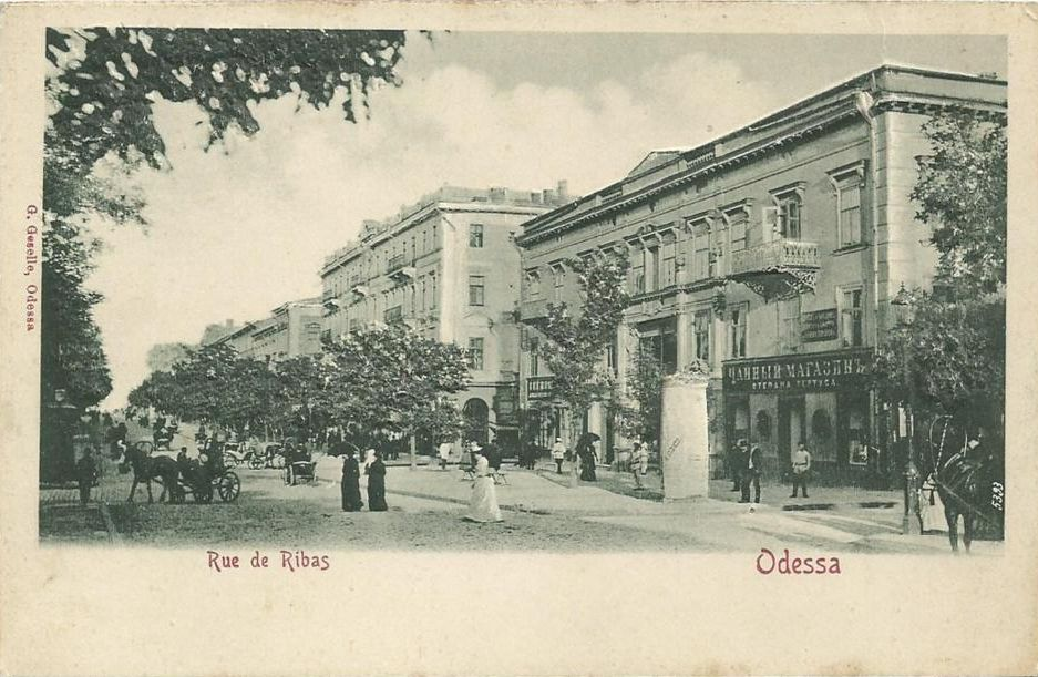 Deribasovskaya Street. Odessa. Russian Empire. Carte Postale (Open Letter) early XX century